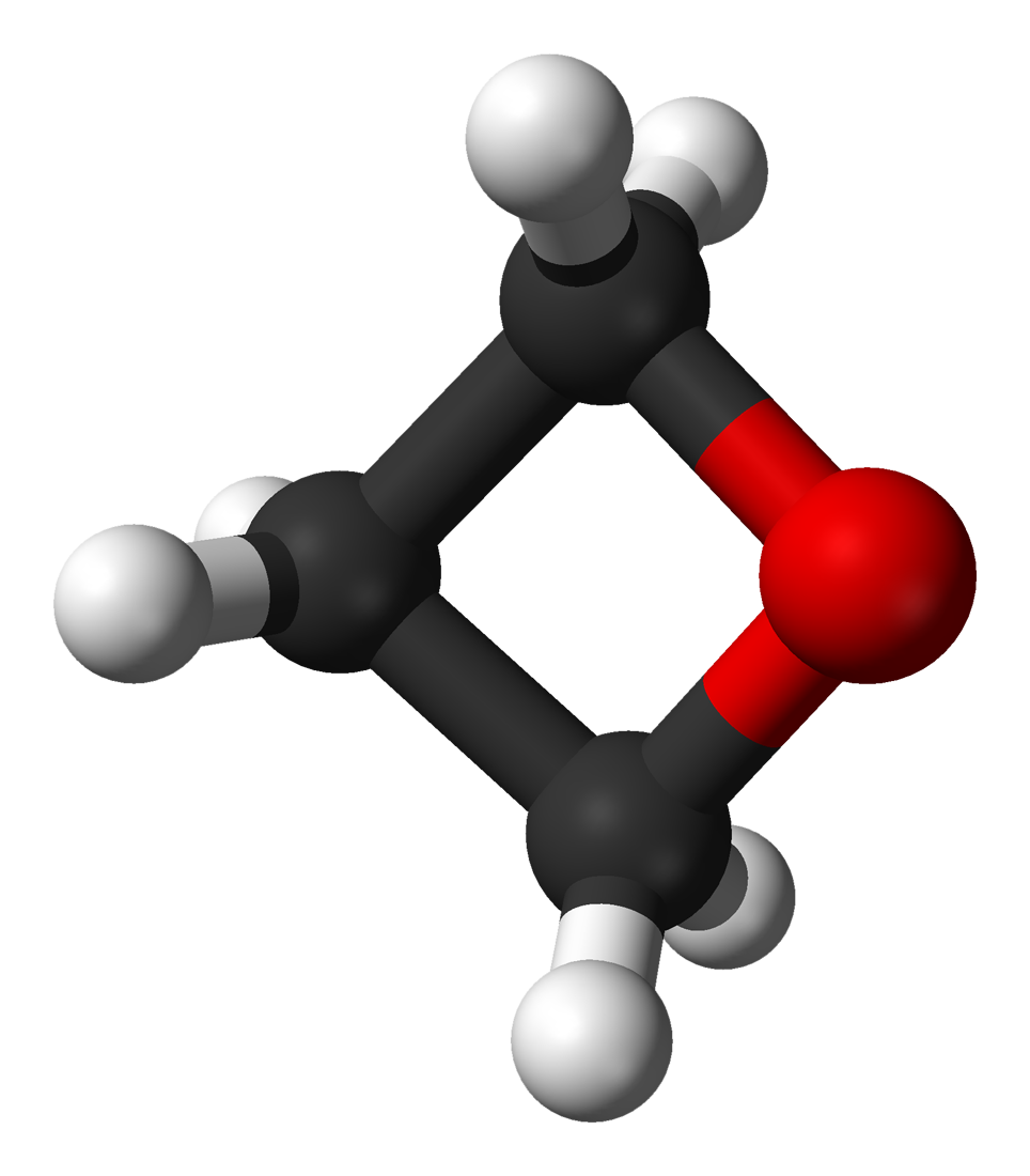 Ball-and-stick model of the oxetane molecule, C3H6O, as found in the crystal structure. X-ray crystallographic data from J. Am. Chem. Soc. (1984) 106, 7118-7121. Model constructed in CrystalMaker 8.1. Image generated in Accelrys DS Visualizer.